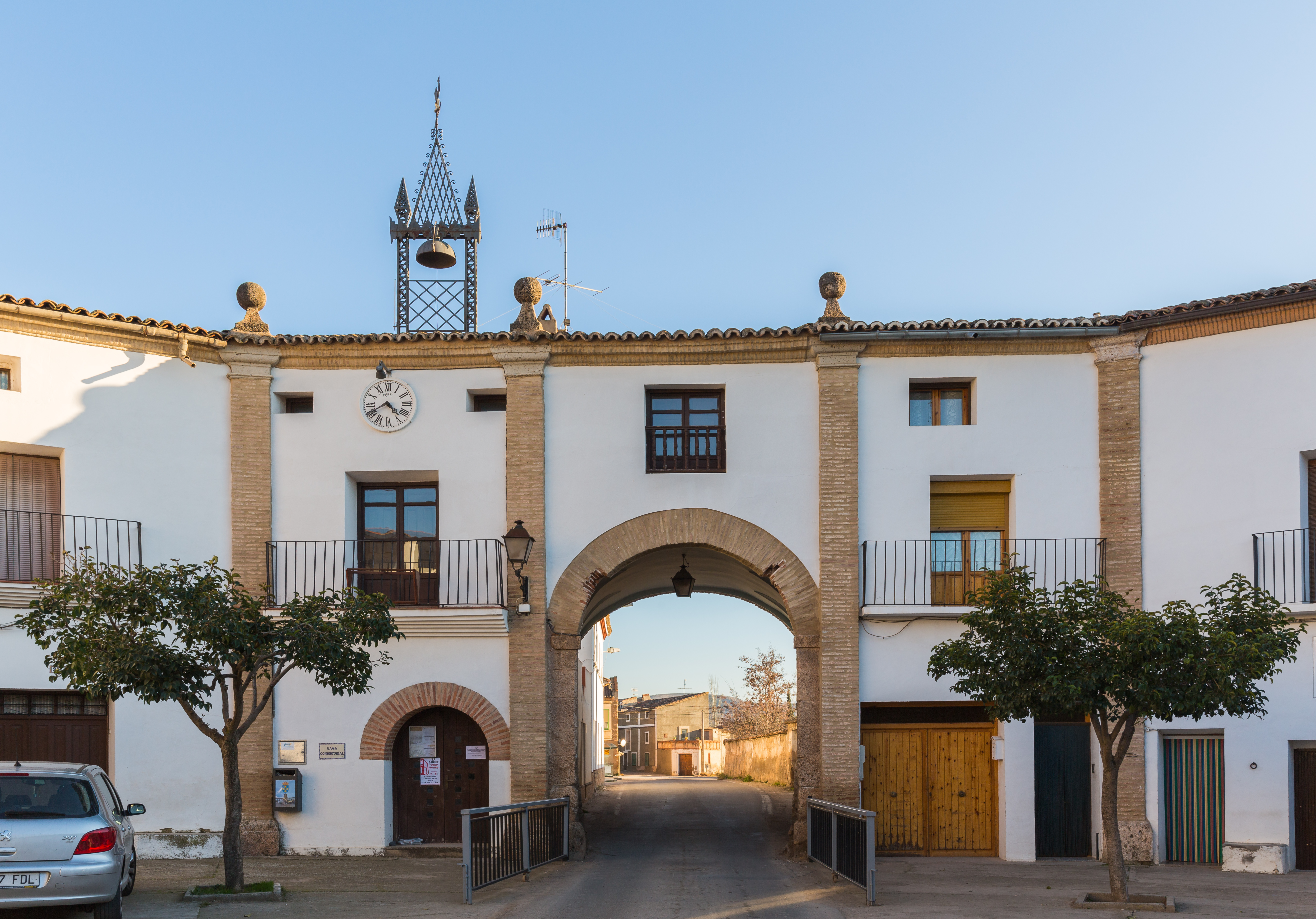 Town hall, Plaza de España, Chodes, Spain